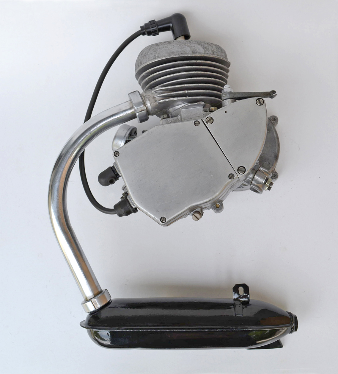 USSR bicycle engine D-6, 1971